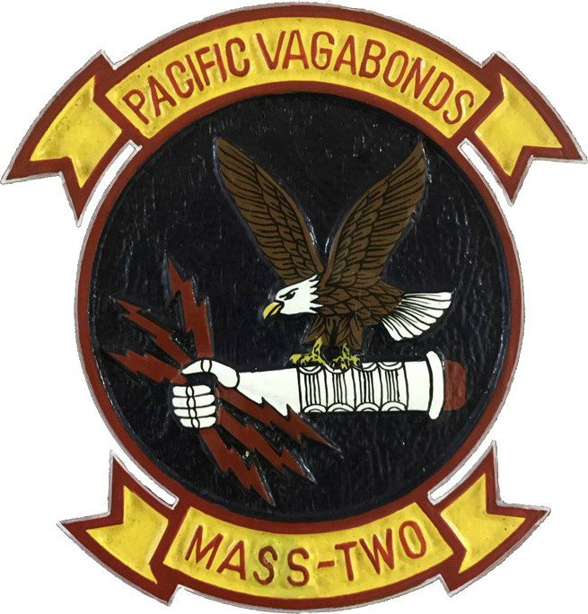 Photo taken of a MASS-2 Insignia contained on a plaque. Insignia shown was used during the 1980s.